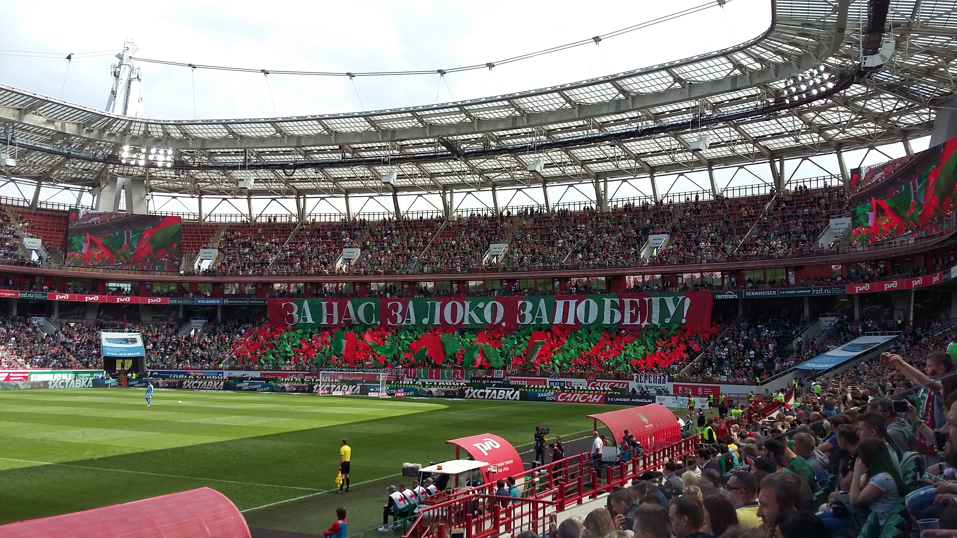 FC Lokomotiv Moscow vs. FC Ufa, 26 May 2019